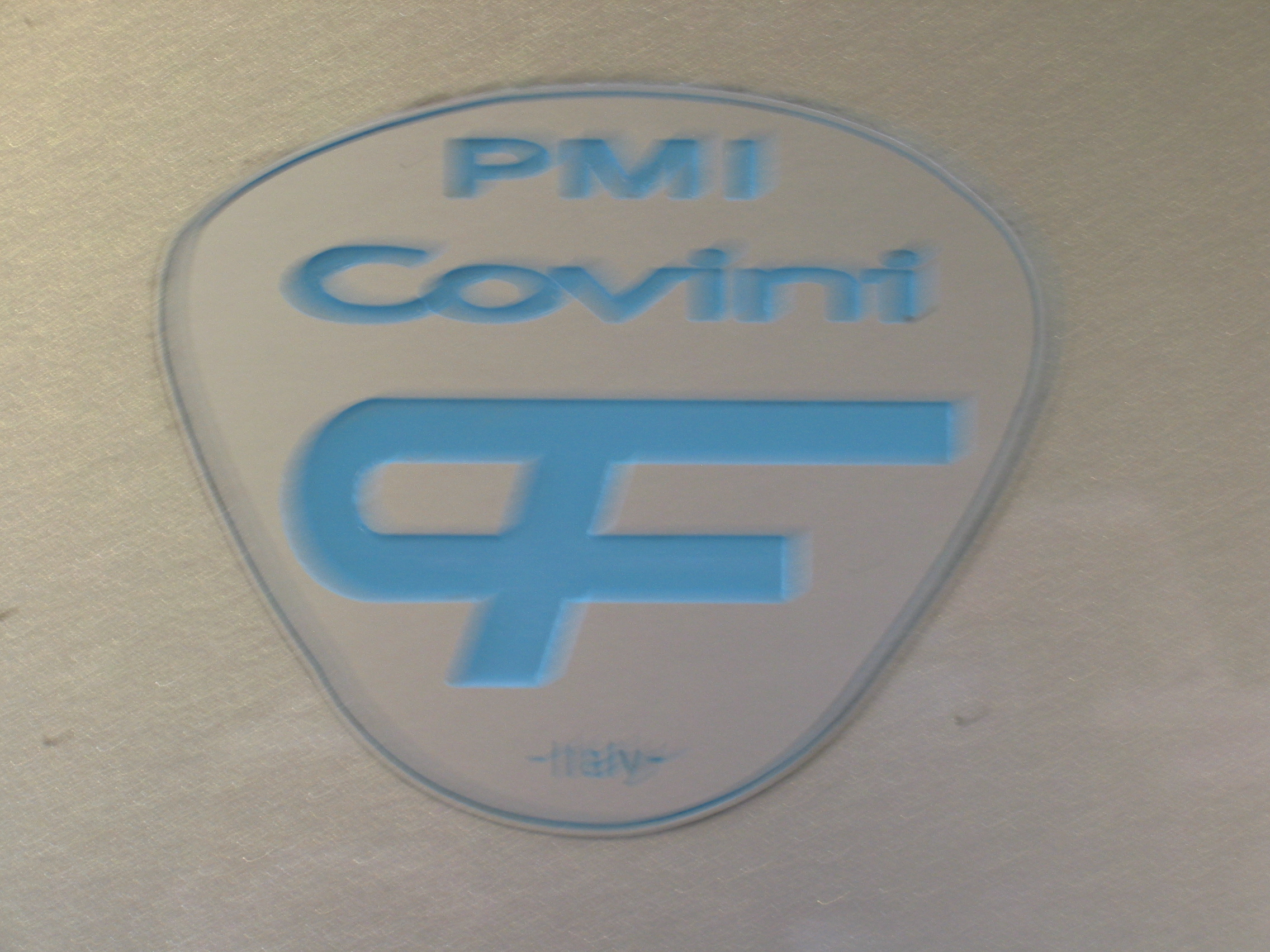 Emblem Covini